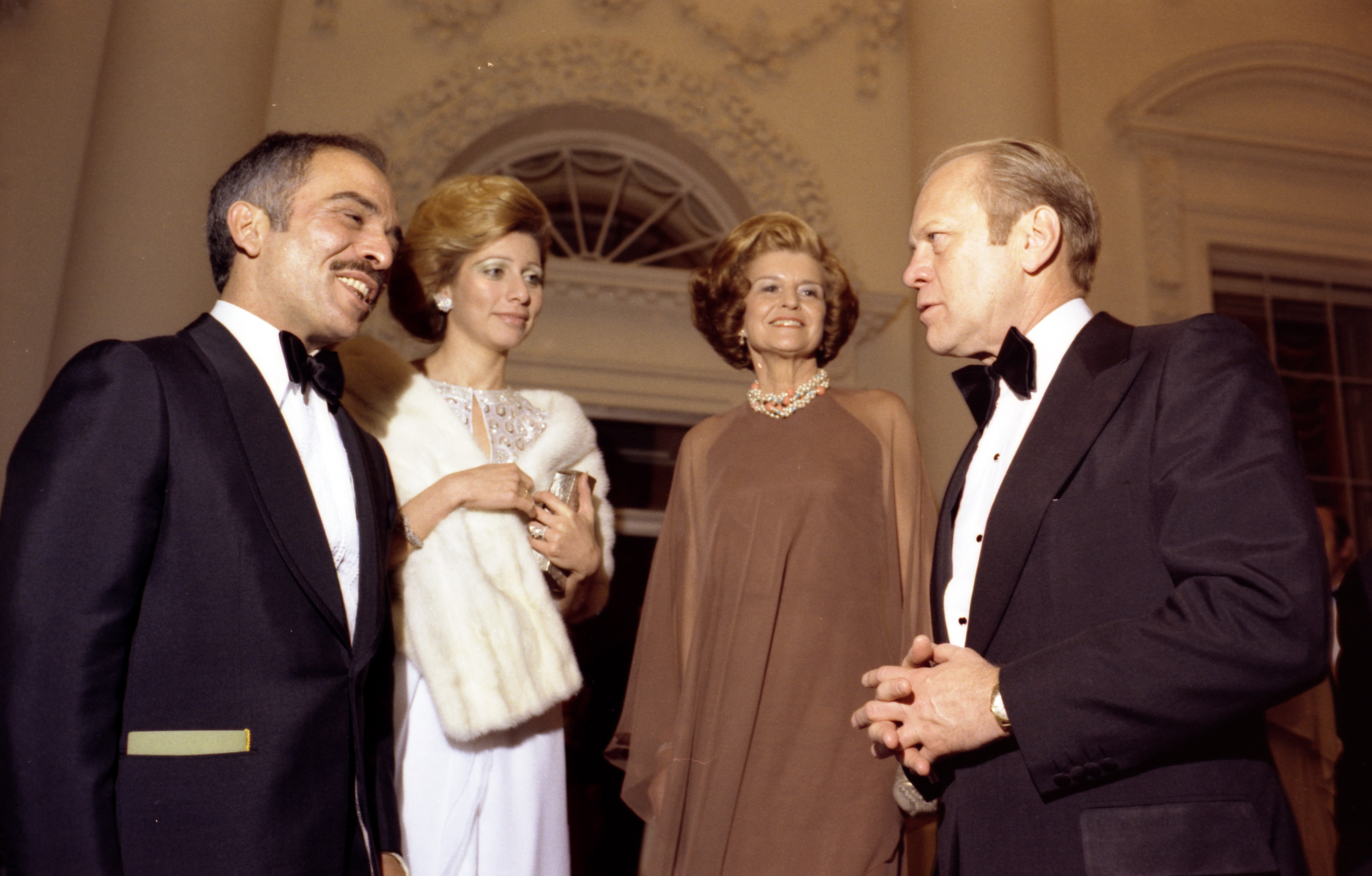 King Hussein of Jordan and his third wife, Queen Alia, after a state dinner with President Ford and his wife.